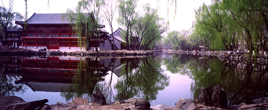 BiMBA campus at the Langrun Garden inside the Peking University, Beijing.